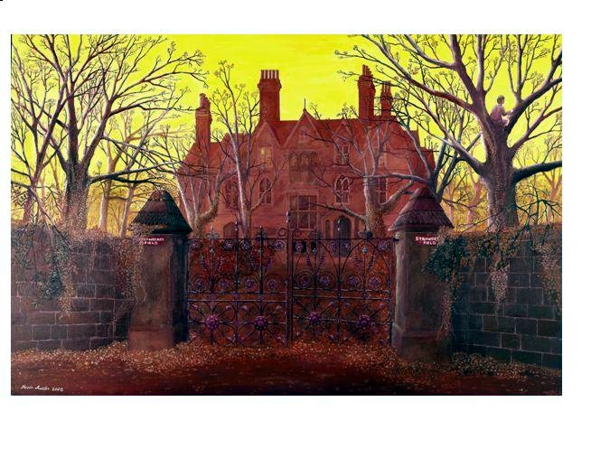 strawberry field home where john lennon played